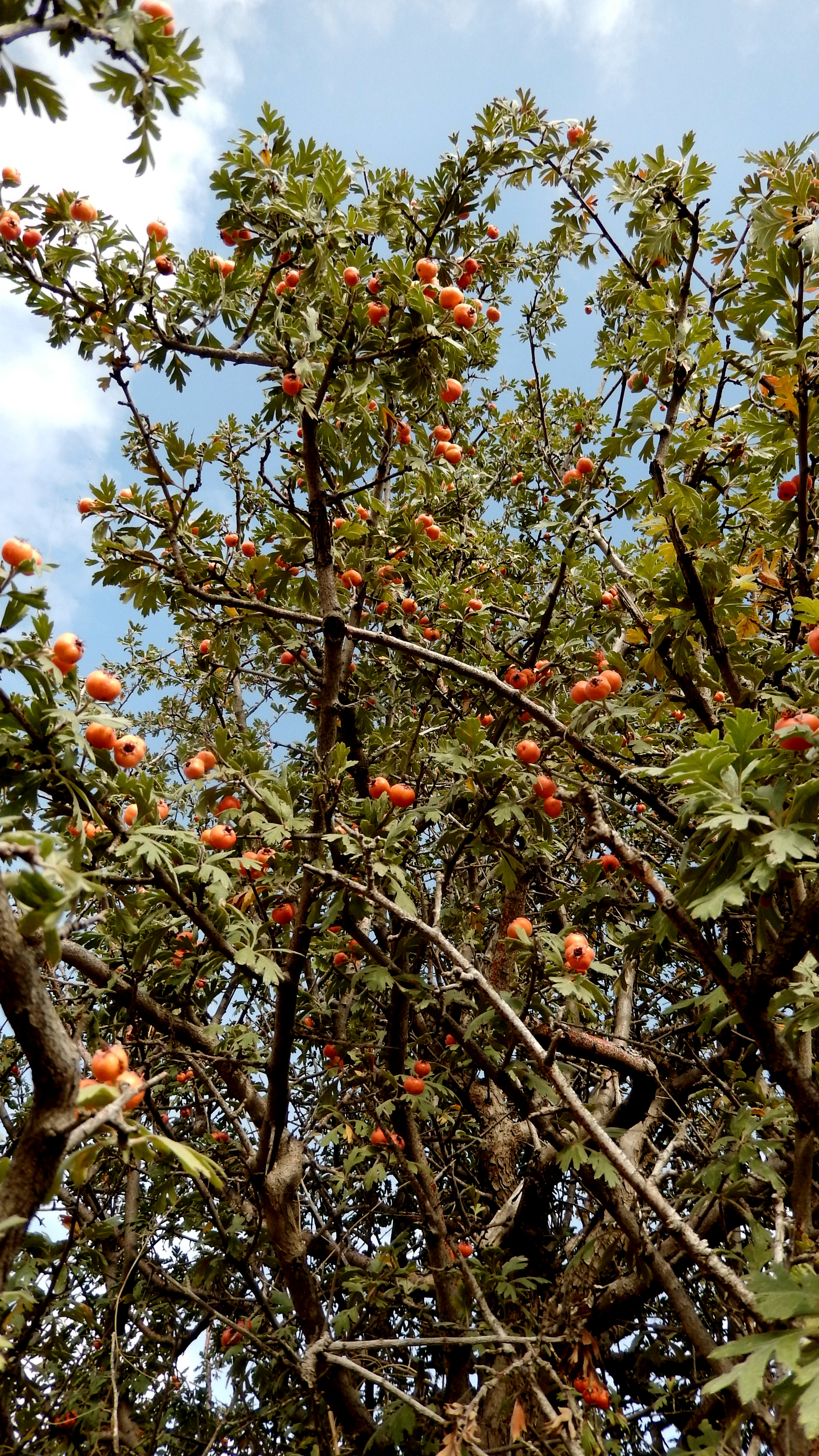 Ալոճենի